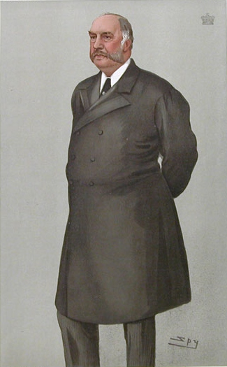 Caricature of Alexander Bruce, 6th Lord Balfour of Burleigh (1849-1921). Caption read "Secretary for Scotland".